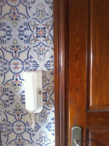 home intercom